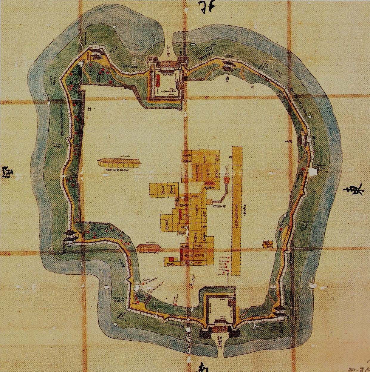 Utsunomiya castle hommaru